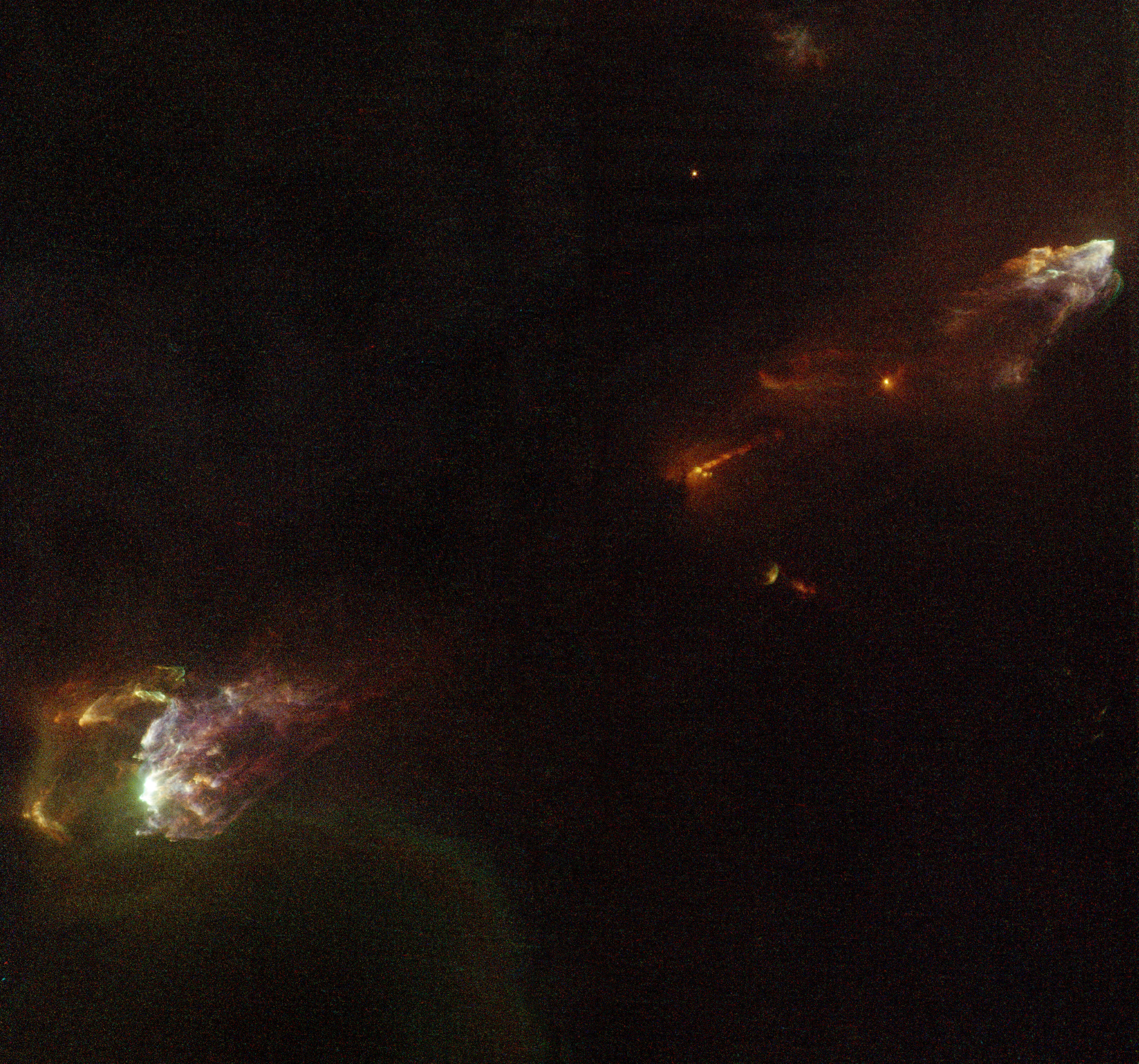 Images are from HST Proposal 13484 (see also: Raga et al. 2015). The stripe in the middle is left from my attempt to reduce the noise in this region.Image Credit: NASA/ESA Hubble Space Telescope WFC3Instrument: Wide-field Camera 3Filters: F373N, F487N, F631N, F656N, F673N